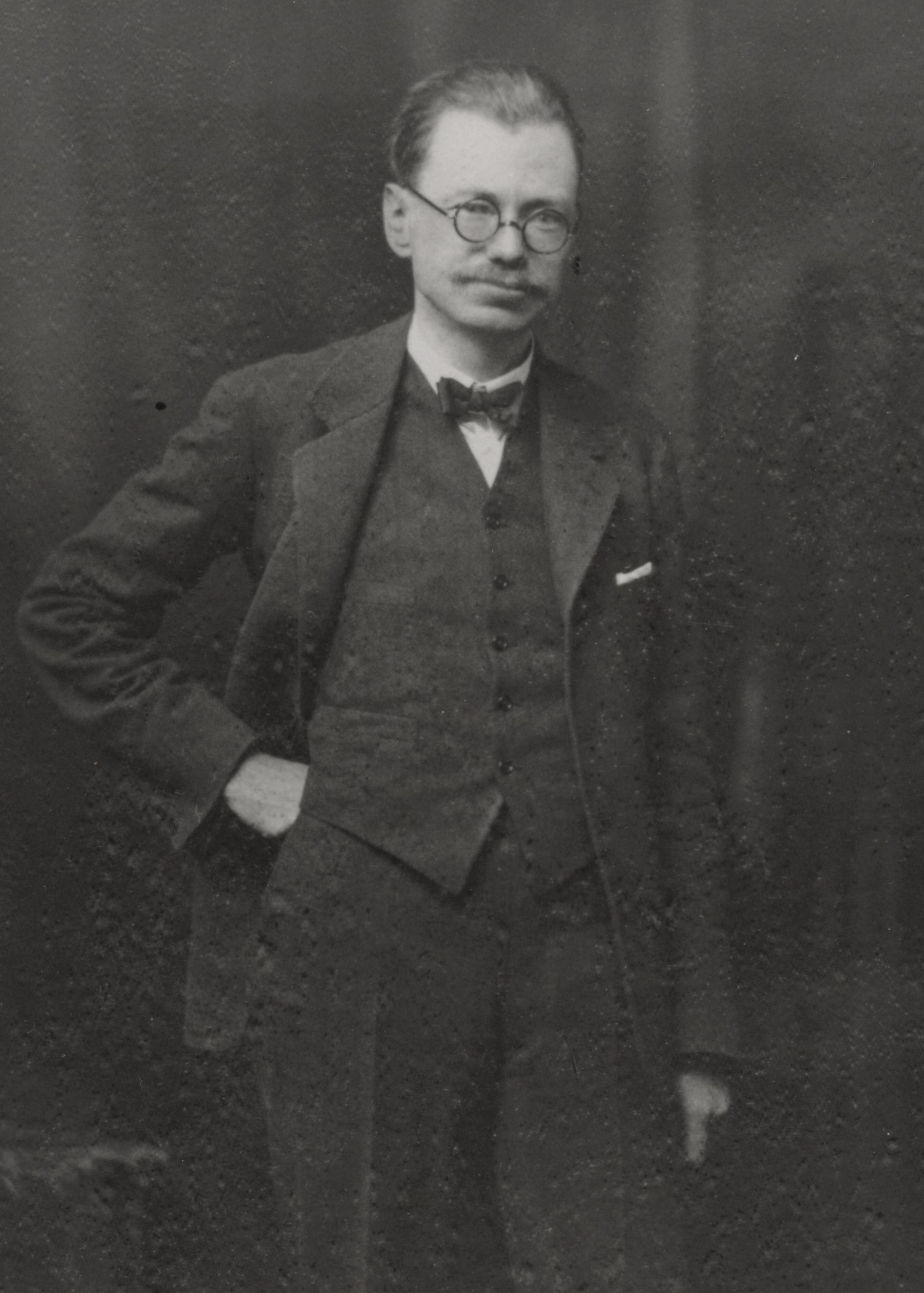 A photograph taken of the noted archaeologist and socialist V. Gordon Childe, circa 1930s.